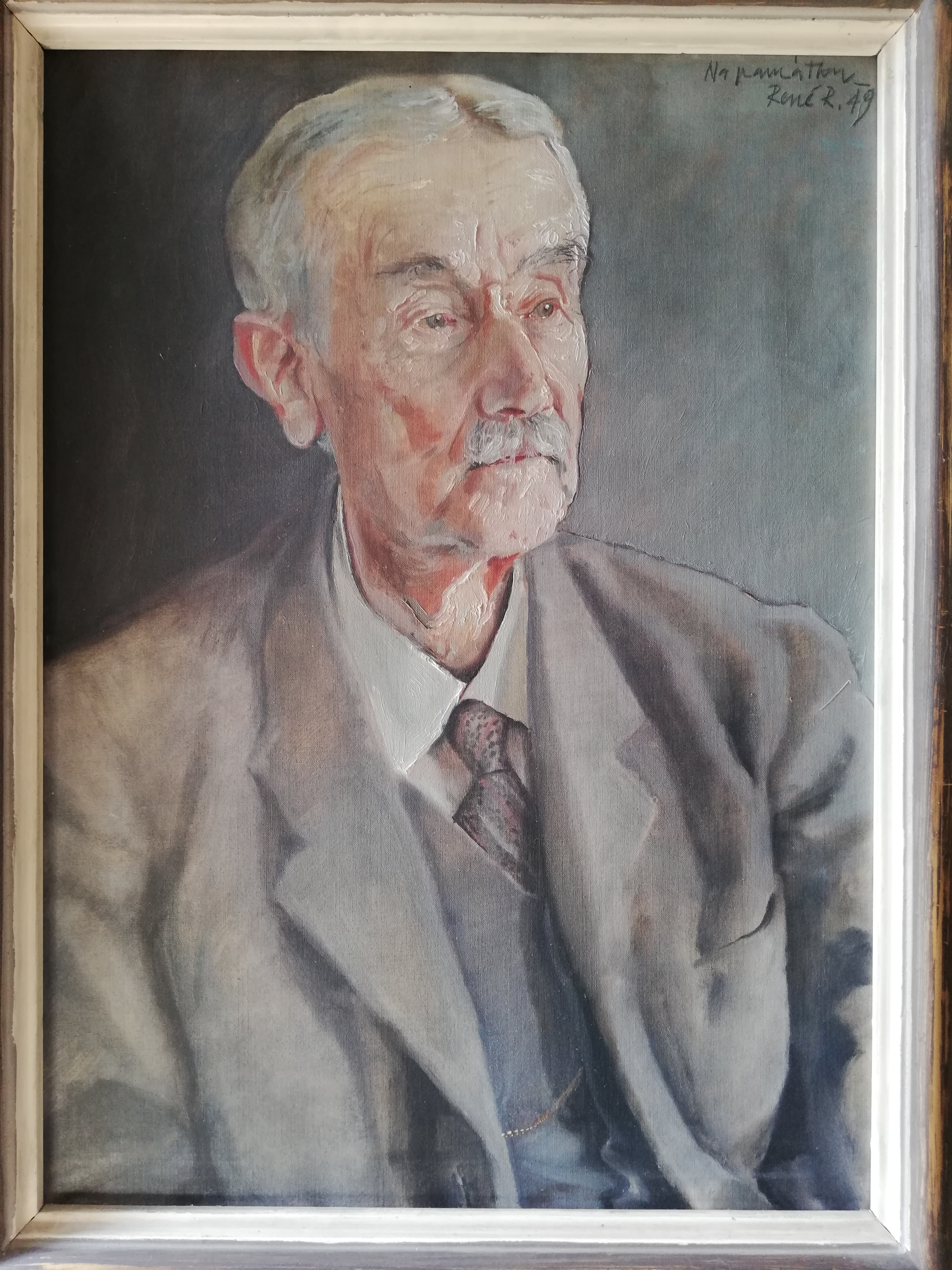 Portrait of Václav Dragoun (September 27, 1865, Vondrov - March 24, 1950, Prague) - Czech postal clerk and first director of the Postal Museum. The author of the painting is René Roubíček (January 23, 1922 Prague - April 29, 2018, Prague) - a Czech art glassmaker and glass artist. The picture shows the year 1949 and the inscription: "In memory of René R. 49"